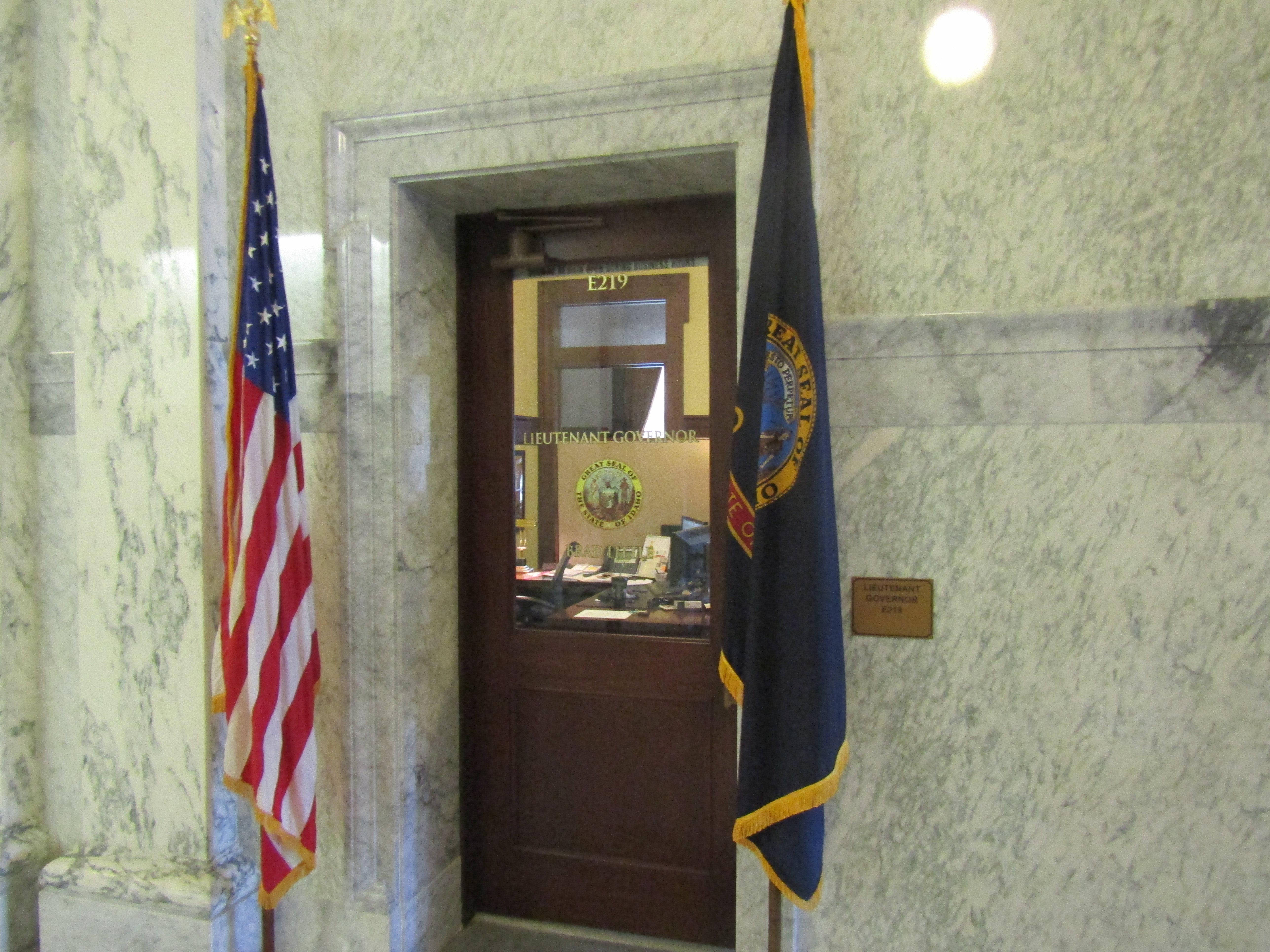 Idaho State Capitol / July 16, 2018